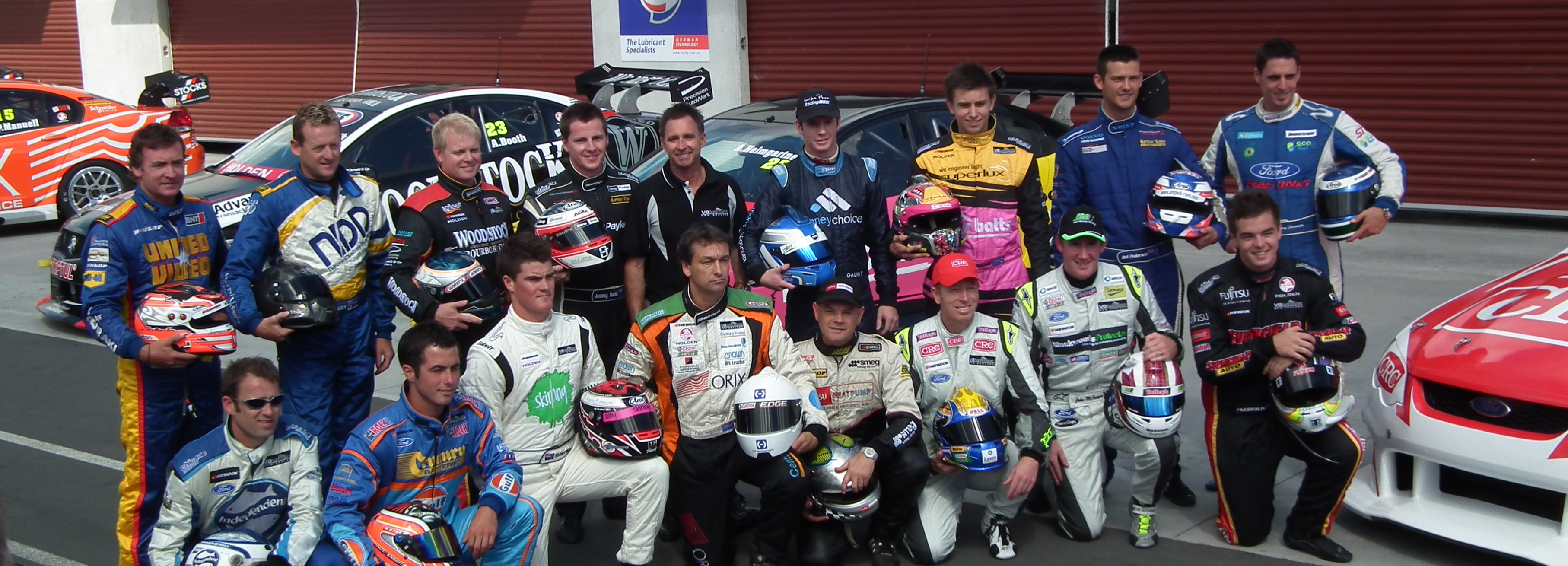 Hampton Downs NZ